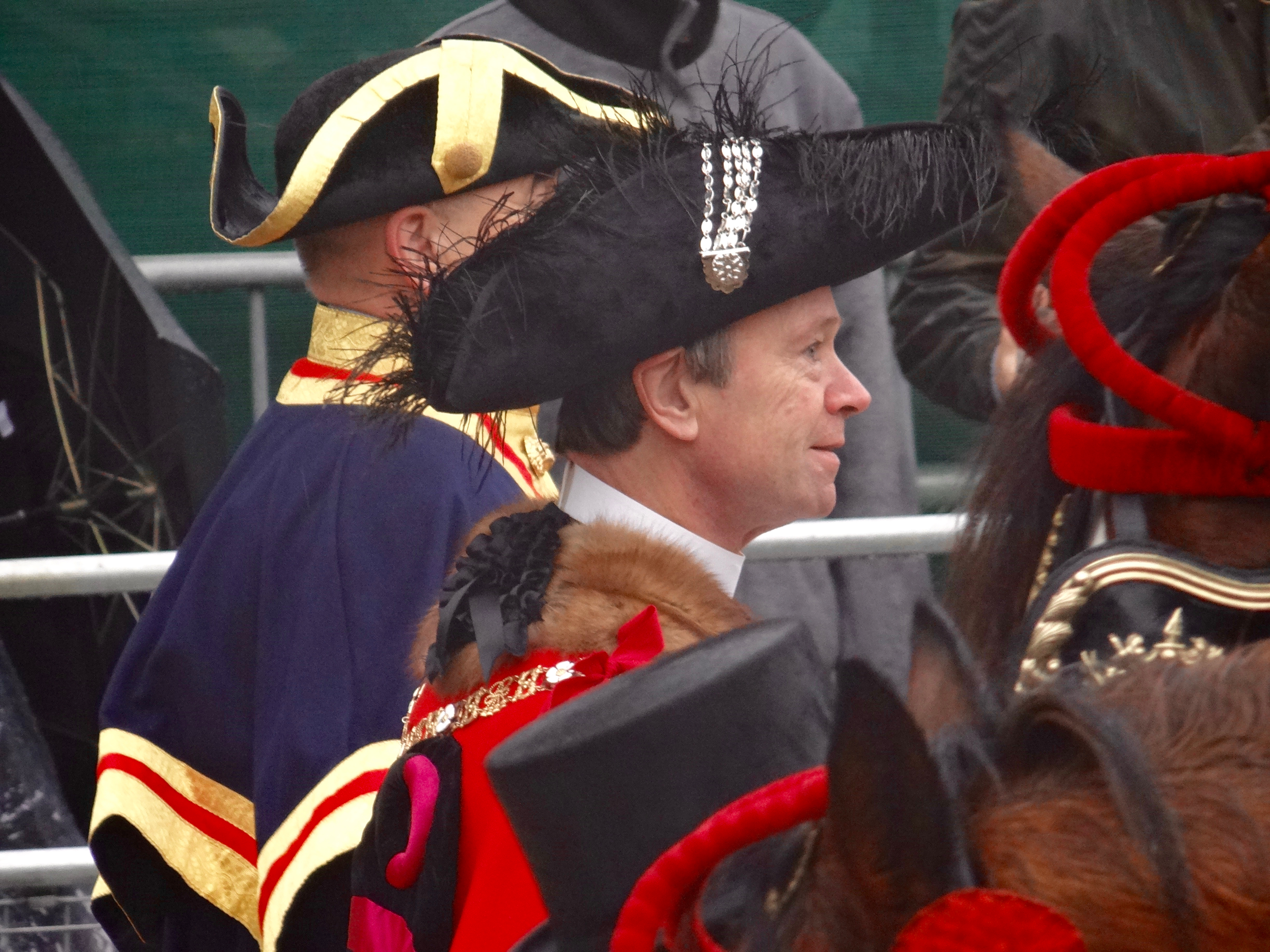 Jeffrey Richard de Corban Evans, 4th Baron Mountevans, in his ceremonial dress as Lord Mayor of London. Photograph taken at the Lord Mayor's Show, 14 November 2015.